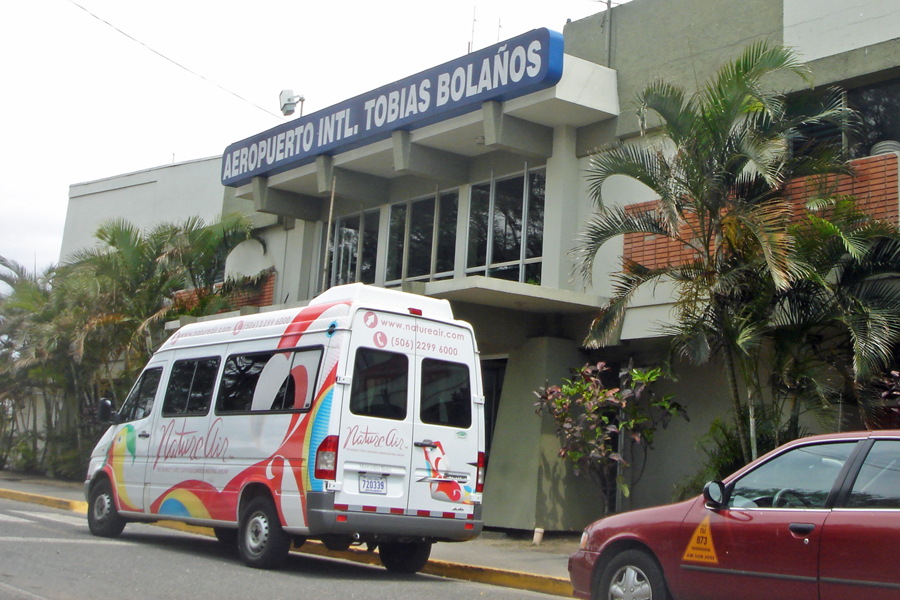 Tobias Bolaños International Airport, San Jose, Costa Rica